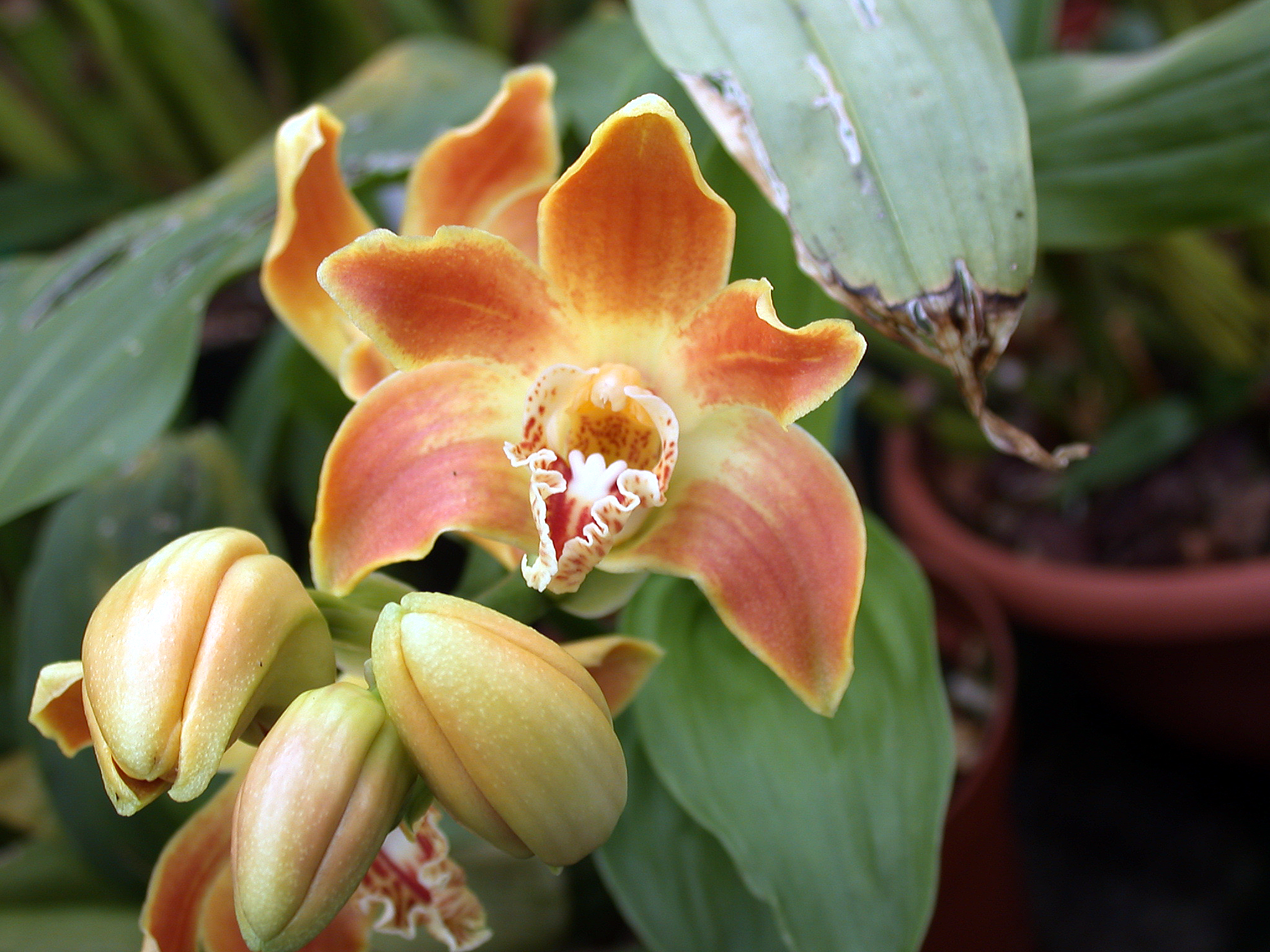 Chysis aurea